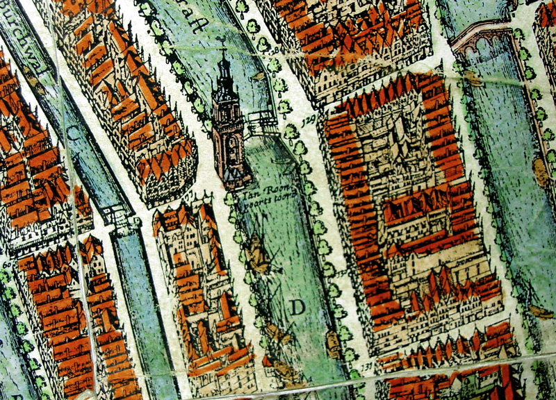 Colour version of Balthasar Florisz. van Berckenrode's 1625 map of Amsterdam.